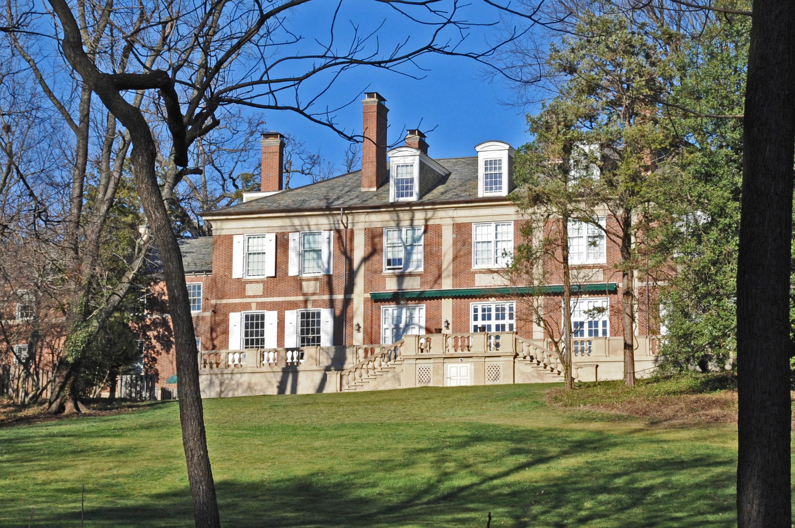 The estate was designed by Charles A. Platt and constructed in 1912. The original occupants, the Parmelees, lived at the estate from its construction until 1940. From 1940 to 1958 it was occupied by Joseph E. Davies, who had served as the ambassador for the United States to Luxembourg, Belgium, and the Soviet Union and his second wife Post Cereal Company heiress Marjorie Merriweather Post. Today the estate is occupied by a campus for the Washington International School [2] and the Tregaron Conservancy.